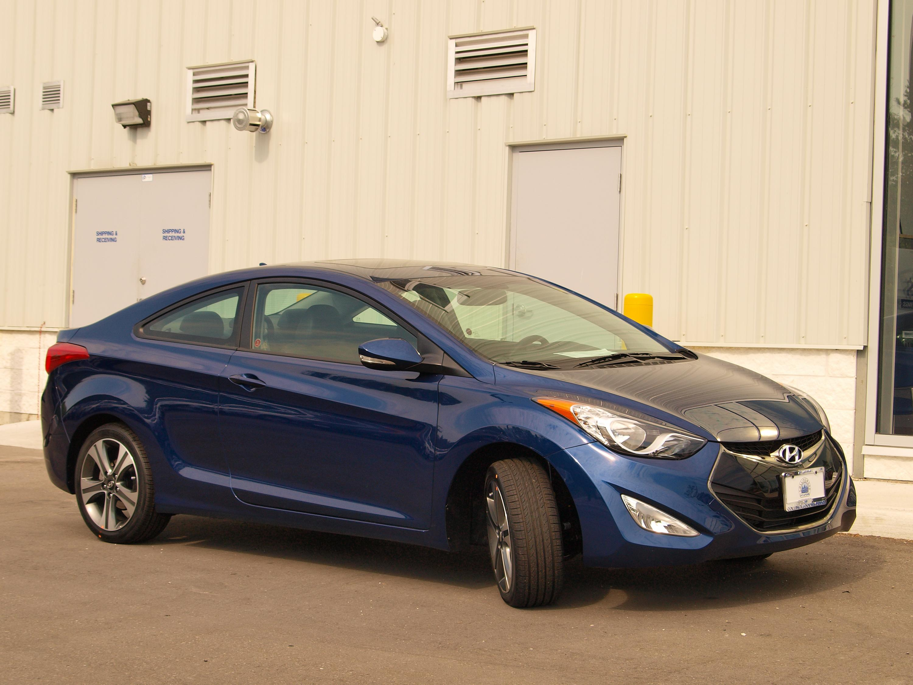 Hyundai has now added a coupe version of their Elantra to their line up. Very nice!